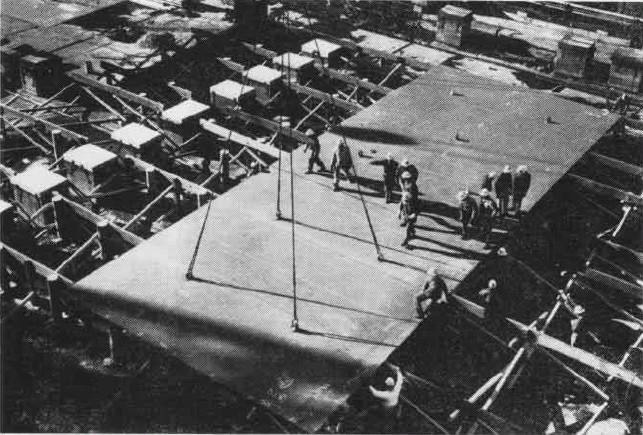 Laying of the keel plate of the nuclear powered U.S. aircraft carrier USS Enterprise (CVAN-65) on 4 February 1958 at dry dock No. 11 of Newport News Shipbuilding at Newport News, Virginia (USA).